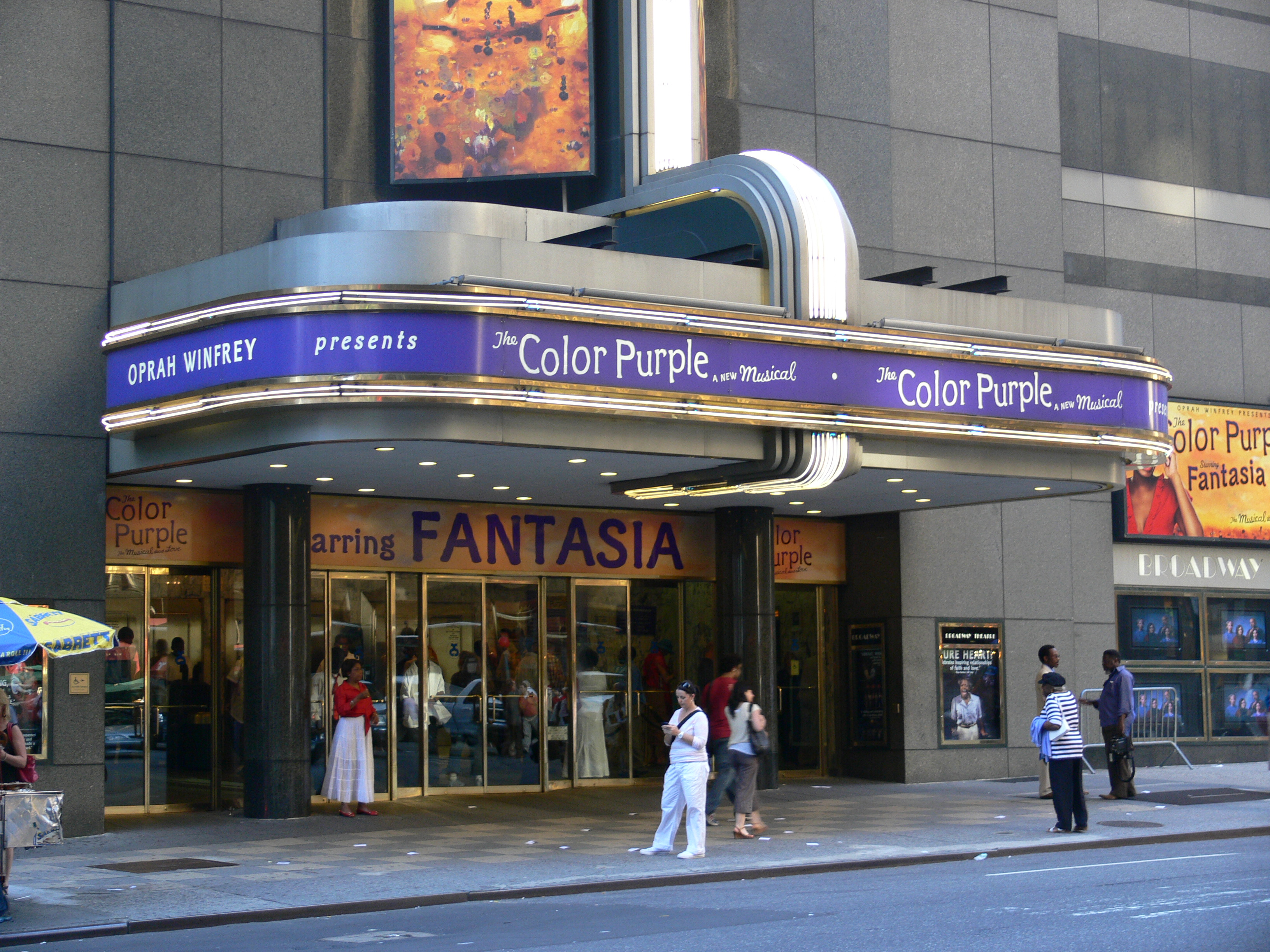 The Broadway Theatre, showing the musical The Color Purple 1681 Broadway, Manhattan, New York City